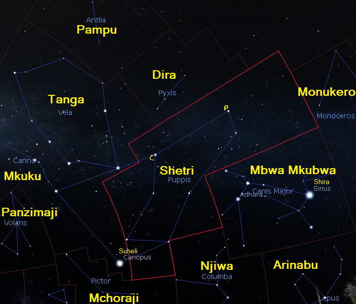 Constellation Puppis as seen from Tanzania, Swahili labelled Kiswahili: Kundinyota Shetri (Puppis) jinsi inavyoonekana kutoka Tanzania, majina kwa Kiswahili